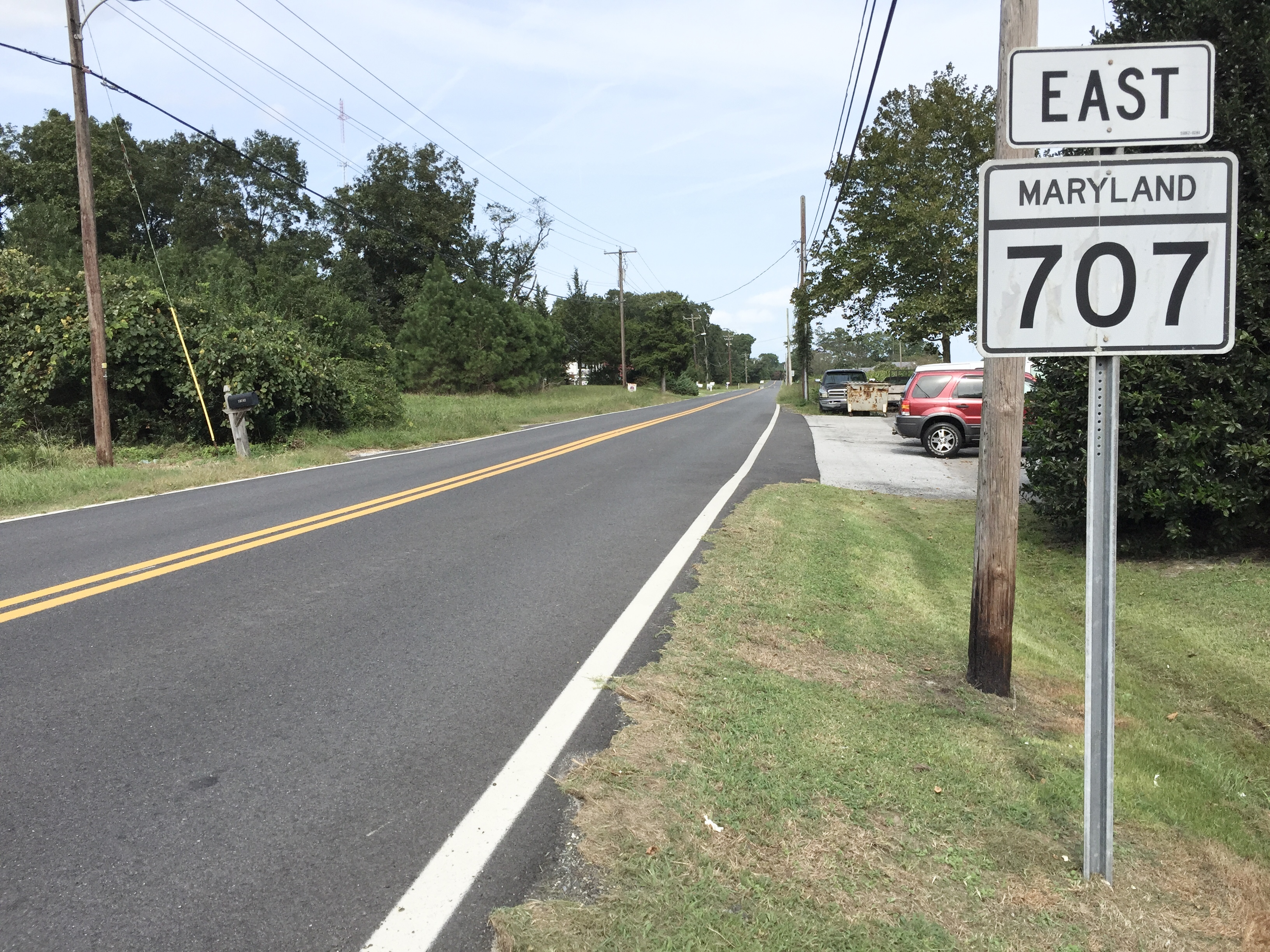 View east along Maryland State Route 707 (Grays Corner Road) at Maryland State Route 452 (Seahawk Road) in Briddletown, Worcester County, Maryland